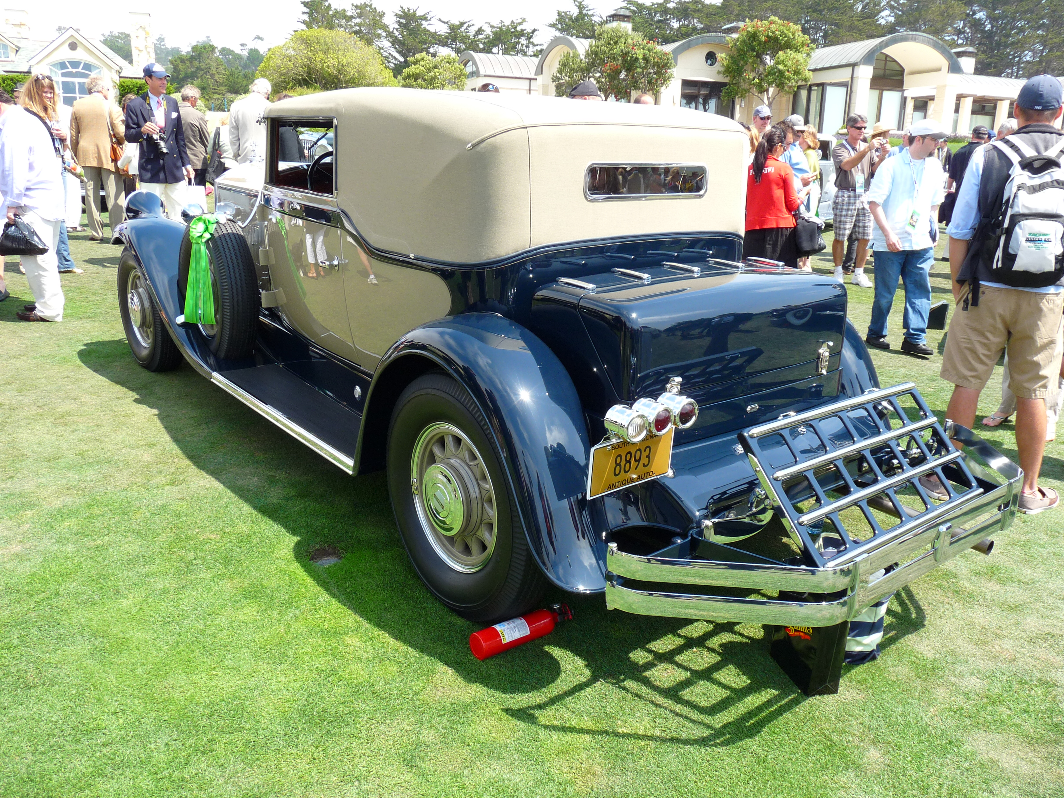 1930 Pierce-Arrow B Waterhouse Convertible Victoria